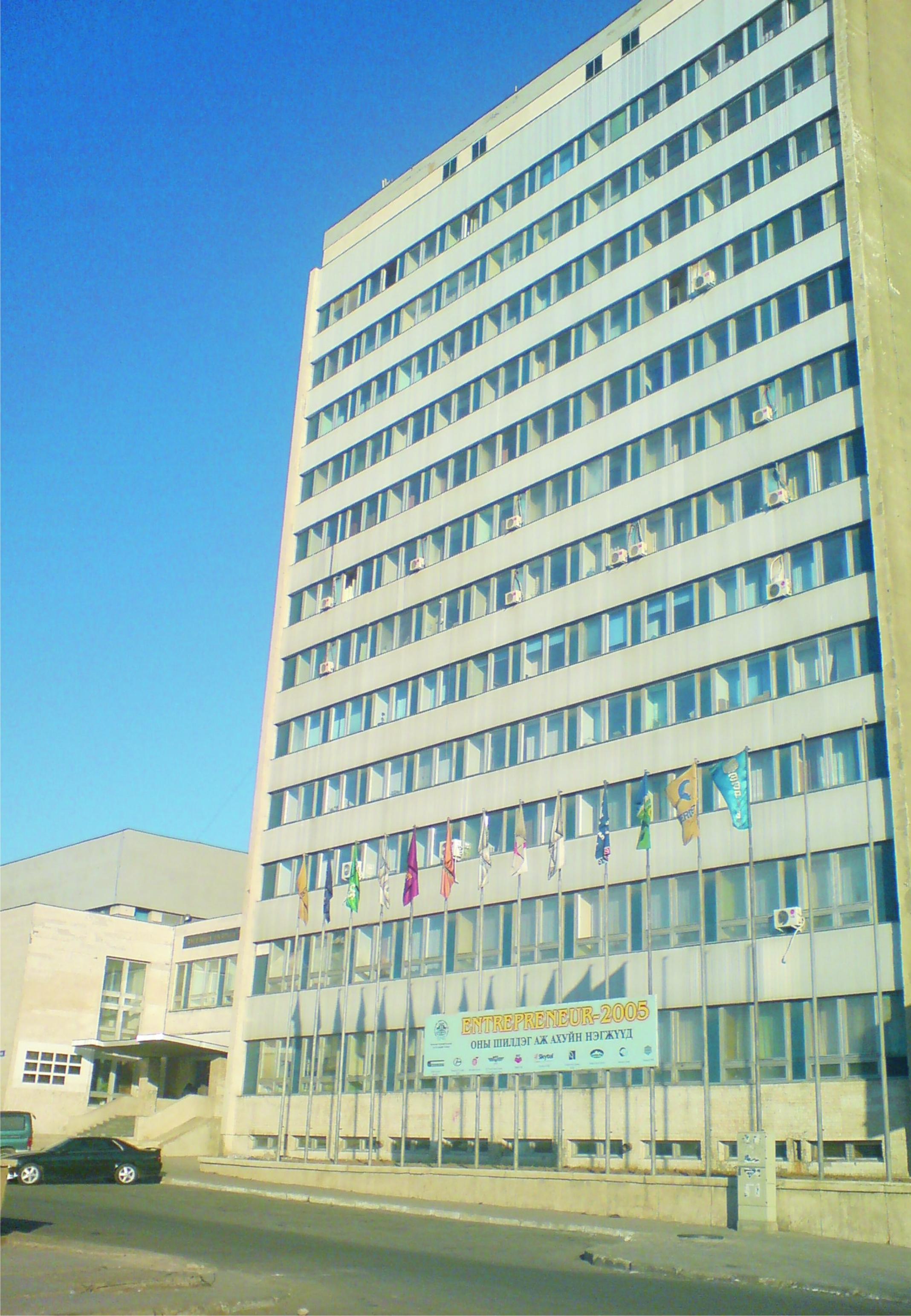 National Human Rights Commission of Mongolia, Government Building 11, Ulaanbaatar, Mongolia